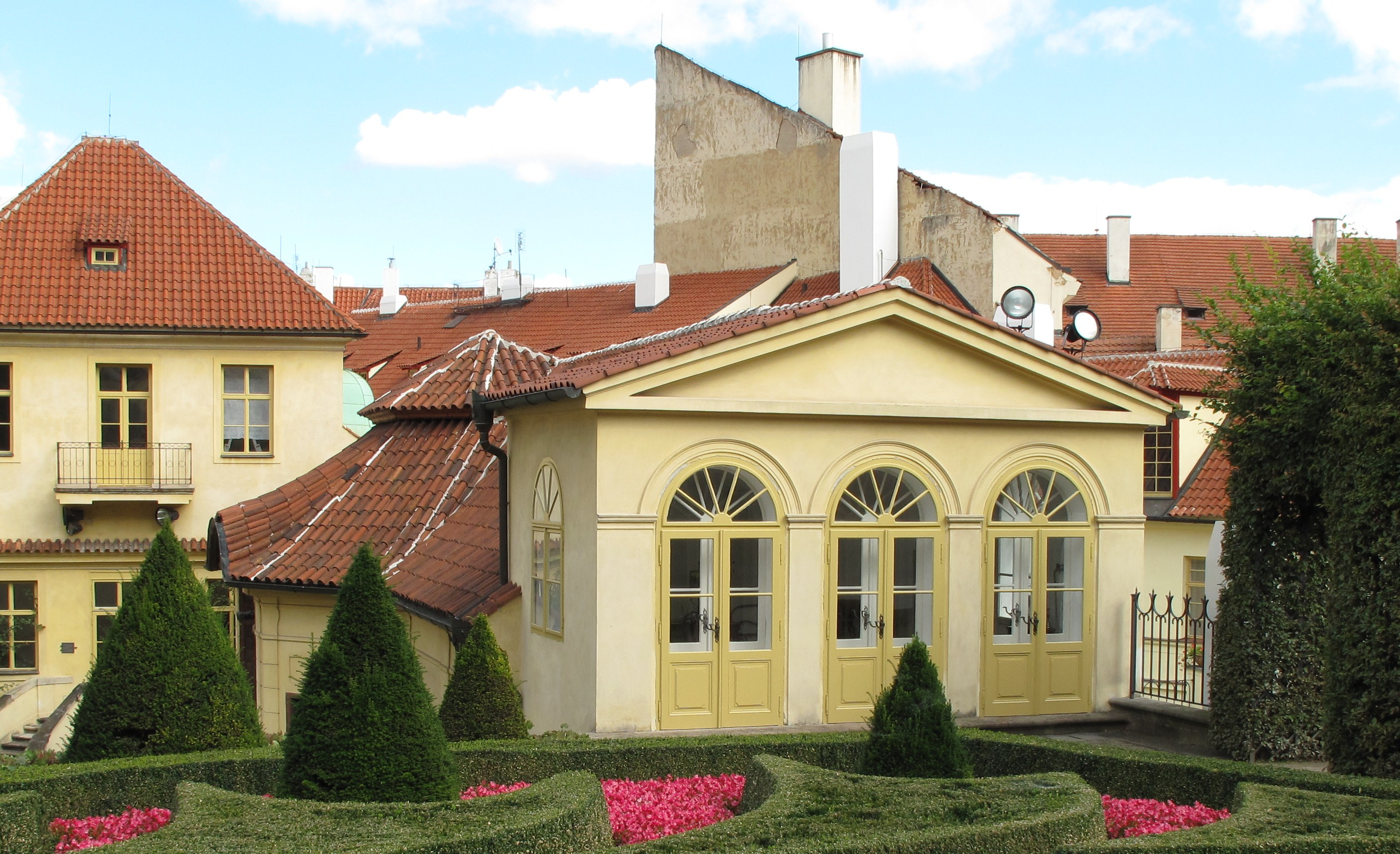 Former atelier of Mikoláš Aleš in Vrtba garden, Prague, Lesser Quarter, Czech Republic.